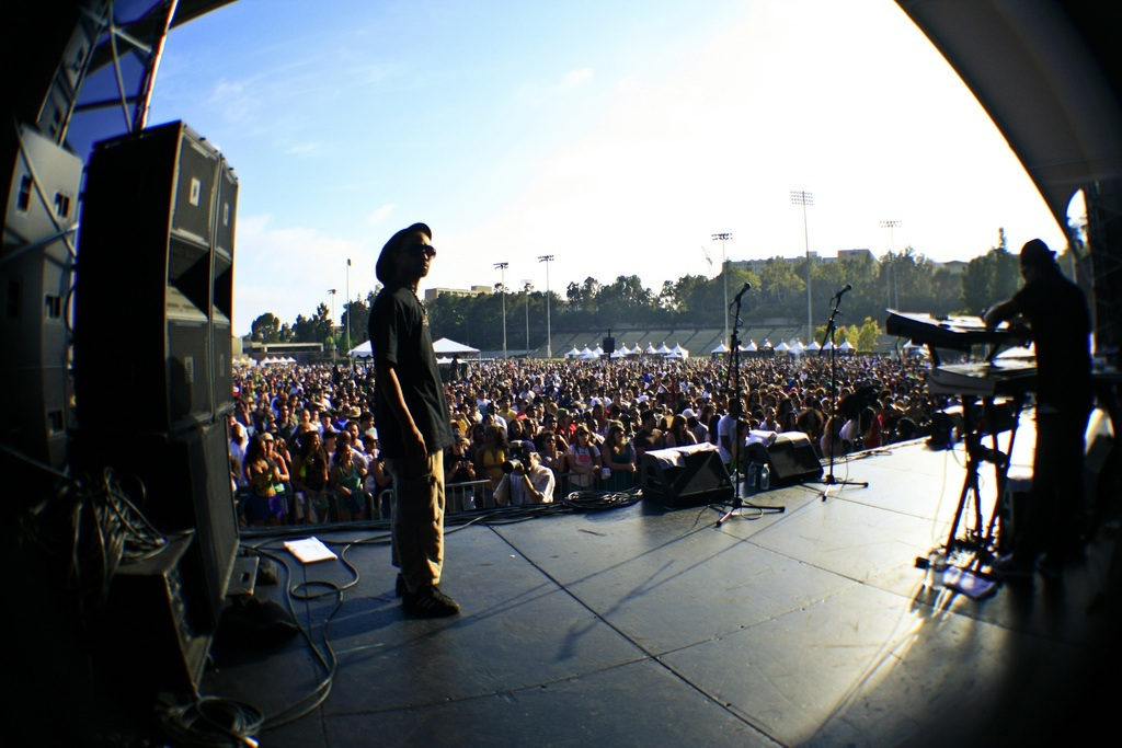 Backstage at 2010 JazzReggae Festival @ UCLA